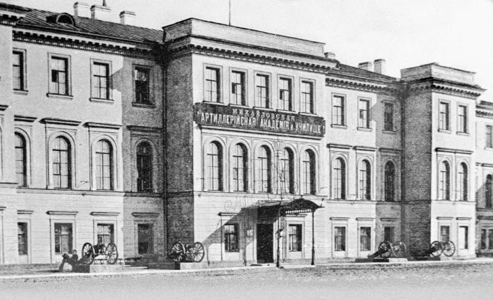 The "Mikhailovskoye artillery school" (Saint-Petersburg, Russia).